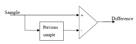 DPCM encoder model for Lossless JPEG